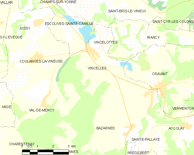 Map of French municipality Vincelles